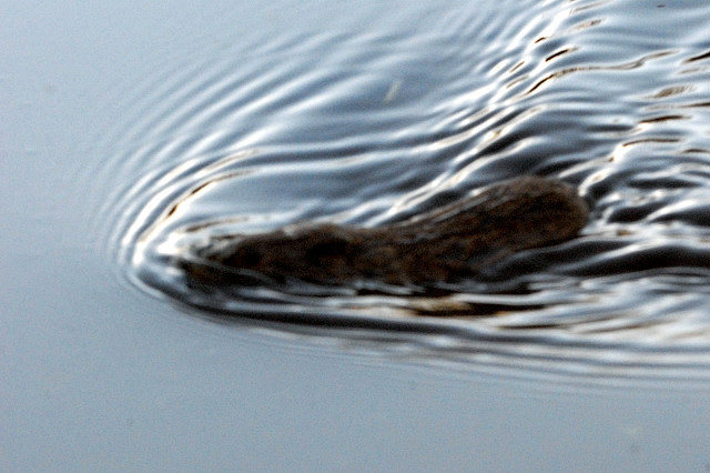 Arvicola terrestris from Commanster, Belgian High Ardennes .